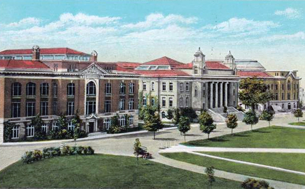 Syacuse University - Bowne Hall and Gymnasium - about 1910